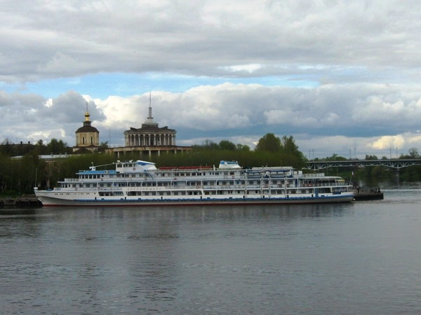 Motor Ship in Volga Tver